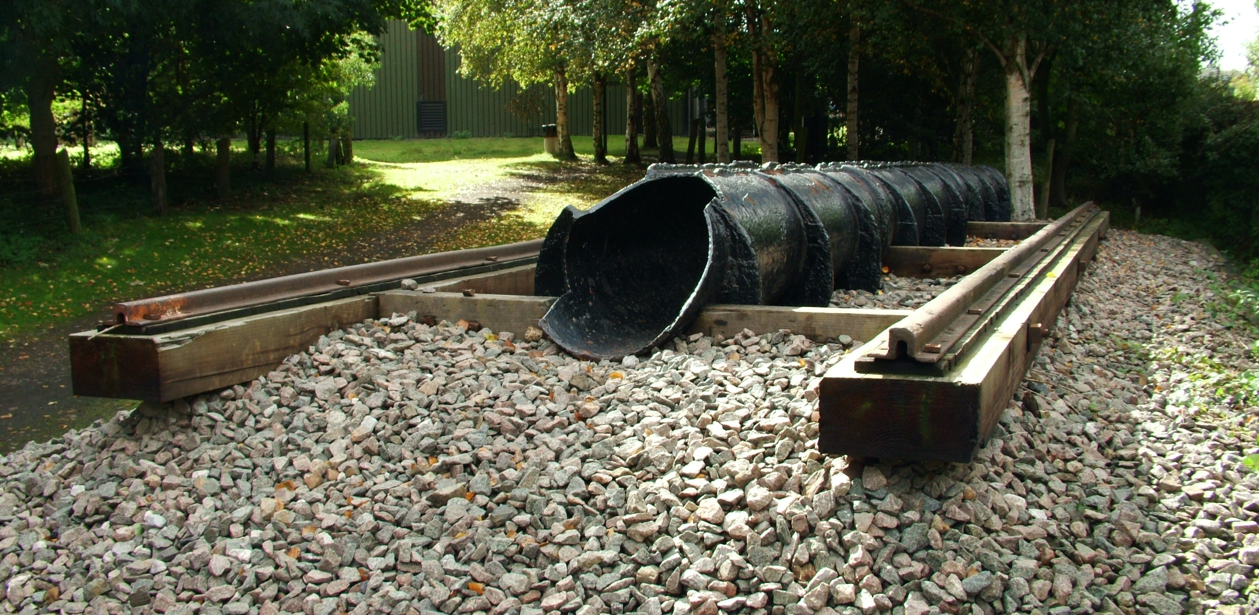 Brunel's Atmospheric Railway remains at Didcot Railway Centre.